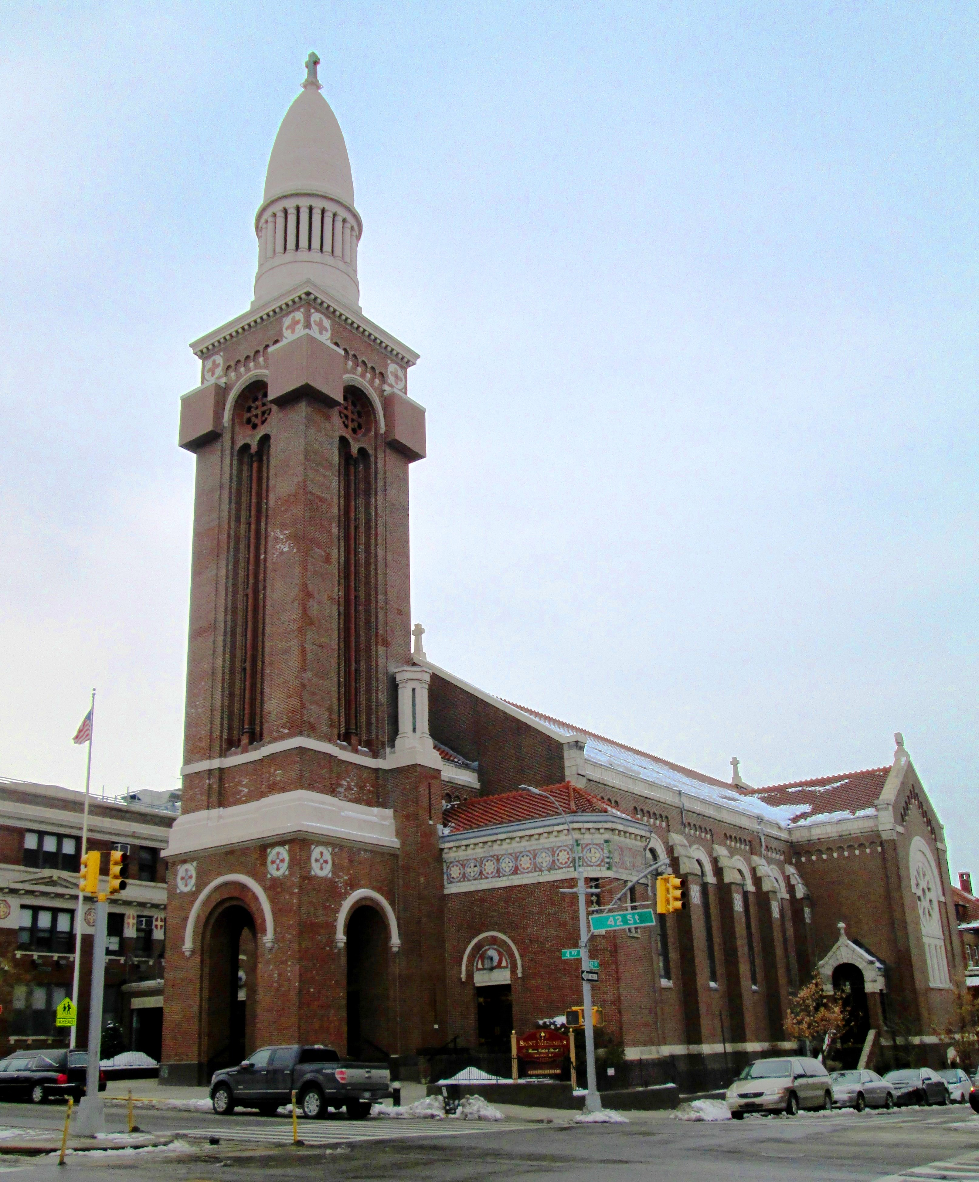 St. Michael's Roman Catholic Church, at 4200 Fourth Avenue on the corner of 42nd Street in the Sunset Park neighborhood of Brooklyn, New York City, was built in 1905 and was designed by Raymond F. Almirall. (Source: AIA Guide to NYC (2010))